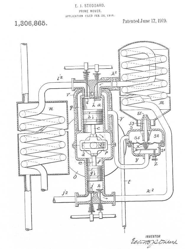 Schematic of a Stoddard Engine from the original US patent.